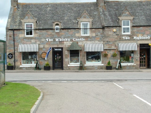 Highland Supermarket. The Whisky Shop in Tomintoul has an excellent selection. You may even get a free sample as well!